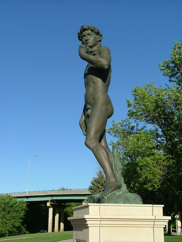 Shot by Jerry Fisher at Fawick Park in Sioux Falls, South Dakota, United States on 22 May, 2005. This full-sized bronze reproduction was a gift from the inventor Thomas Fawick to the city of Sioux Falls.